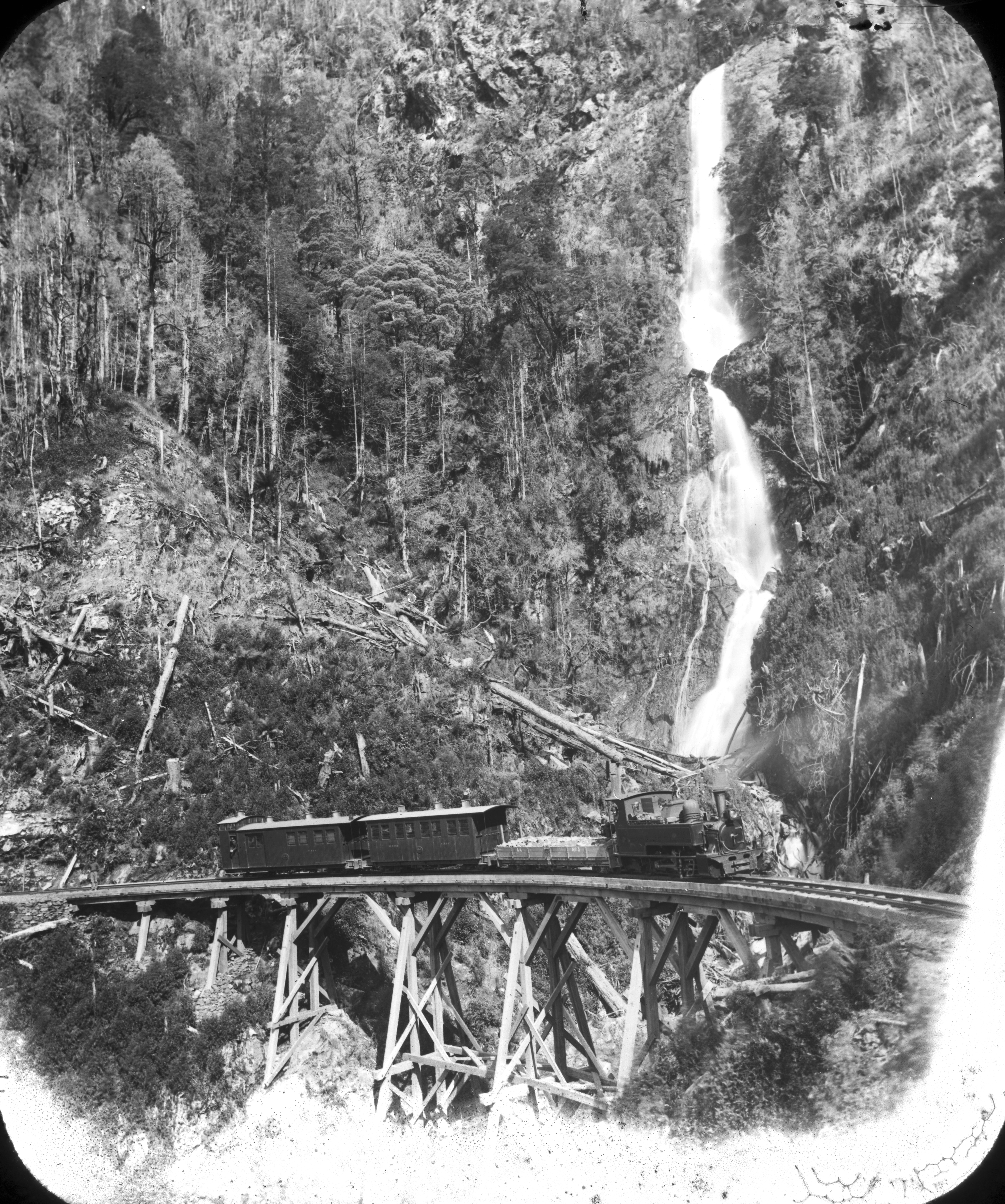 G class 0-4-2T Sharp Stewart crosses the Montezuma Bridge on the North East Dundas Tramway with a mixed train to Zeehan. This photo dates from around 1899. Beattie photo